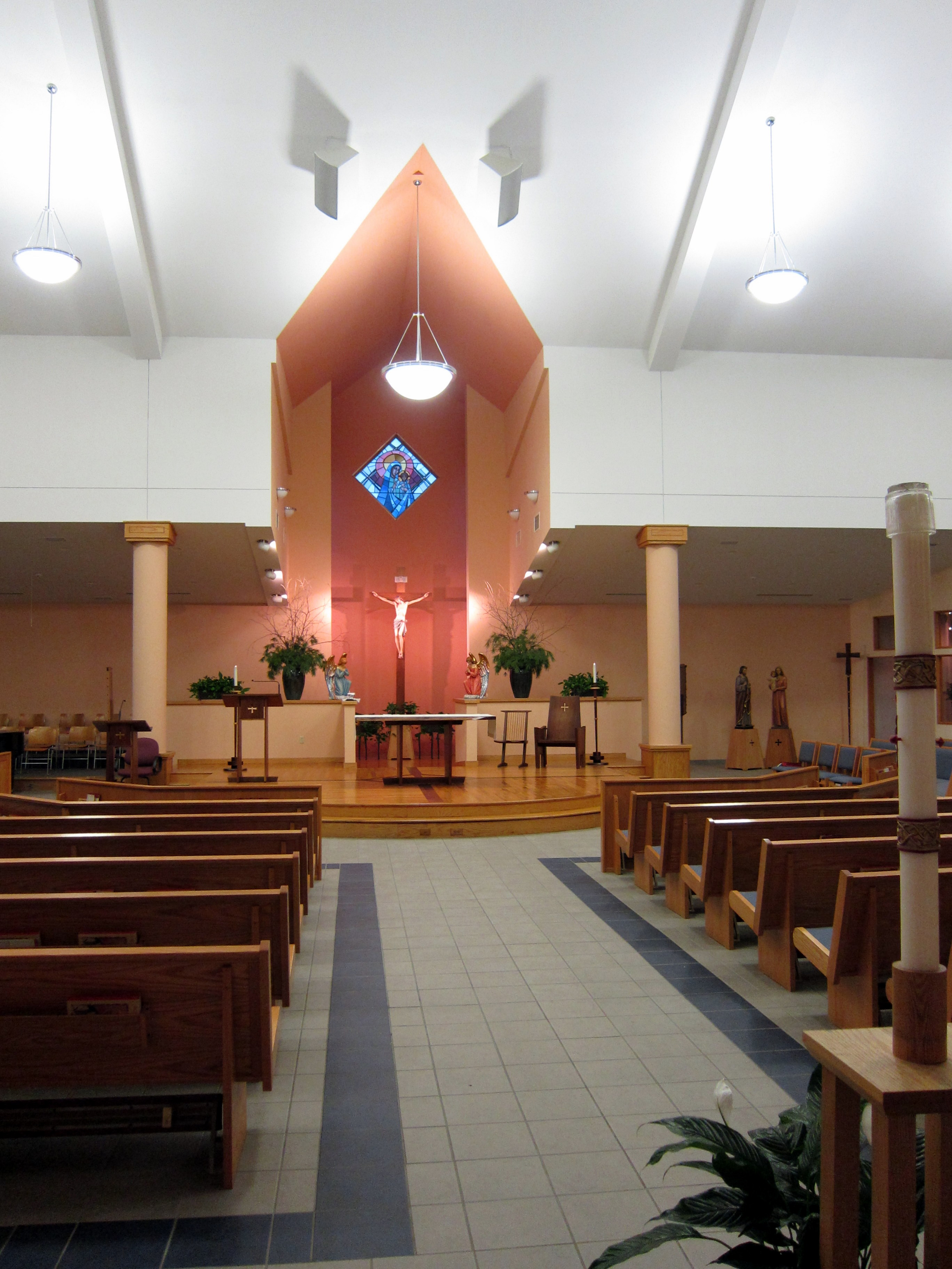 Our Lady of Victory Roman Catholic Church (Troy, New York), interior